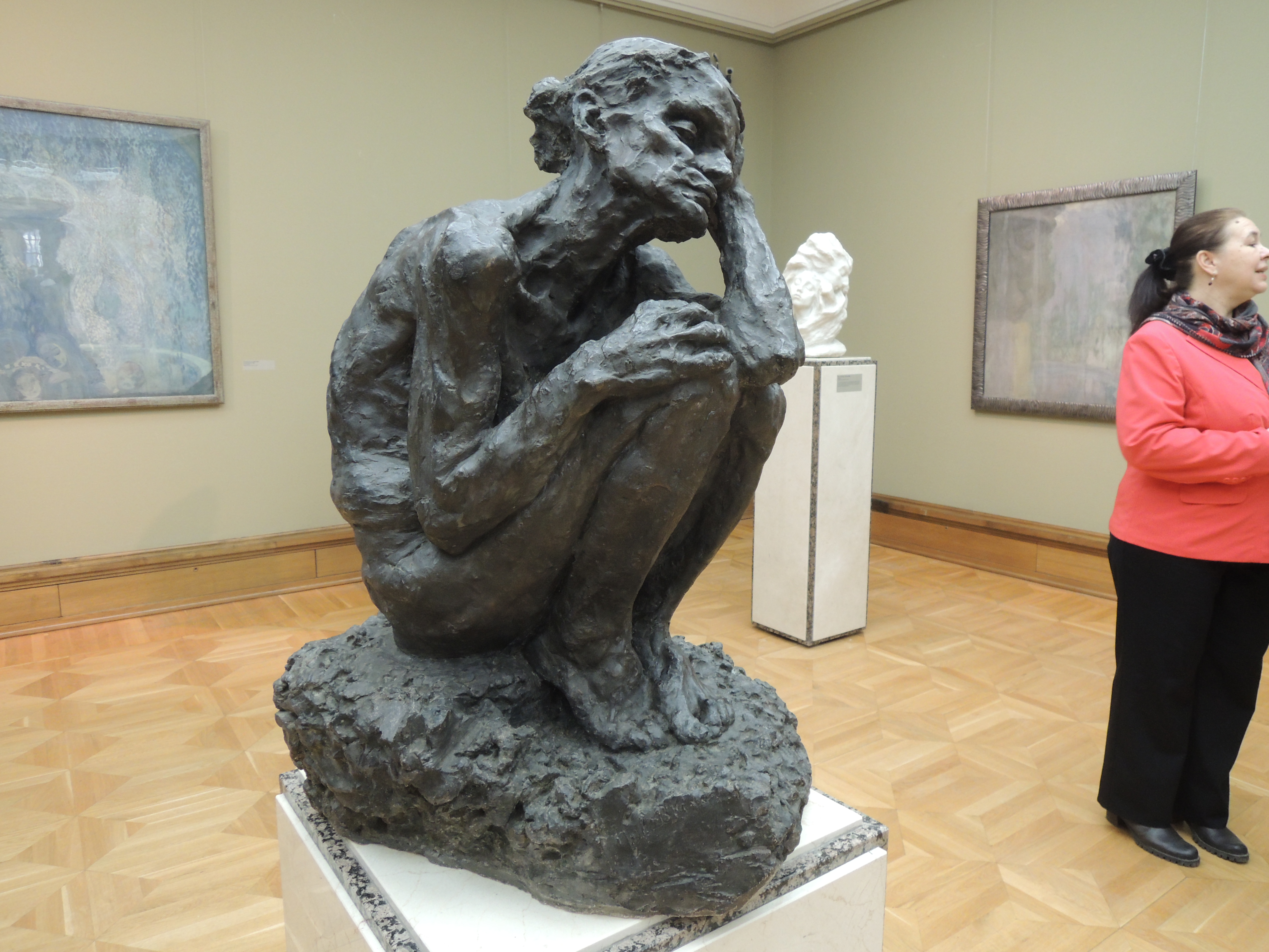 see filename. Own photo of work of sculptor Anna Golubkina (1864-1927)